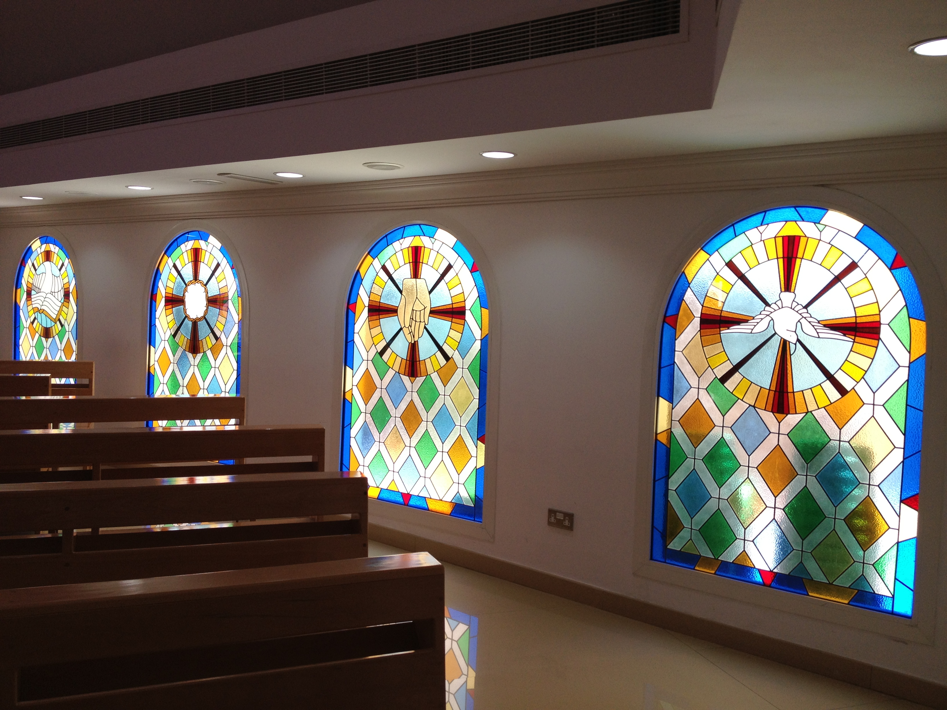 stained glass art at holy trinity church dubai